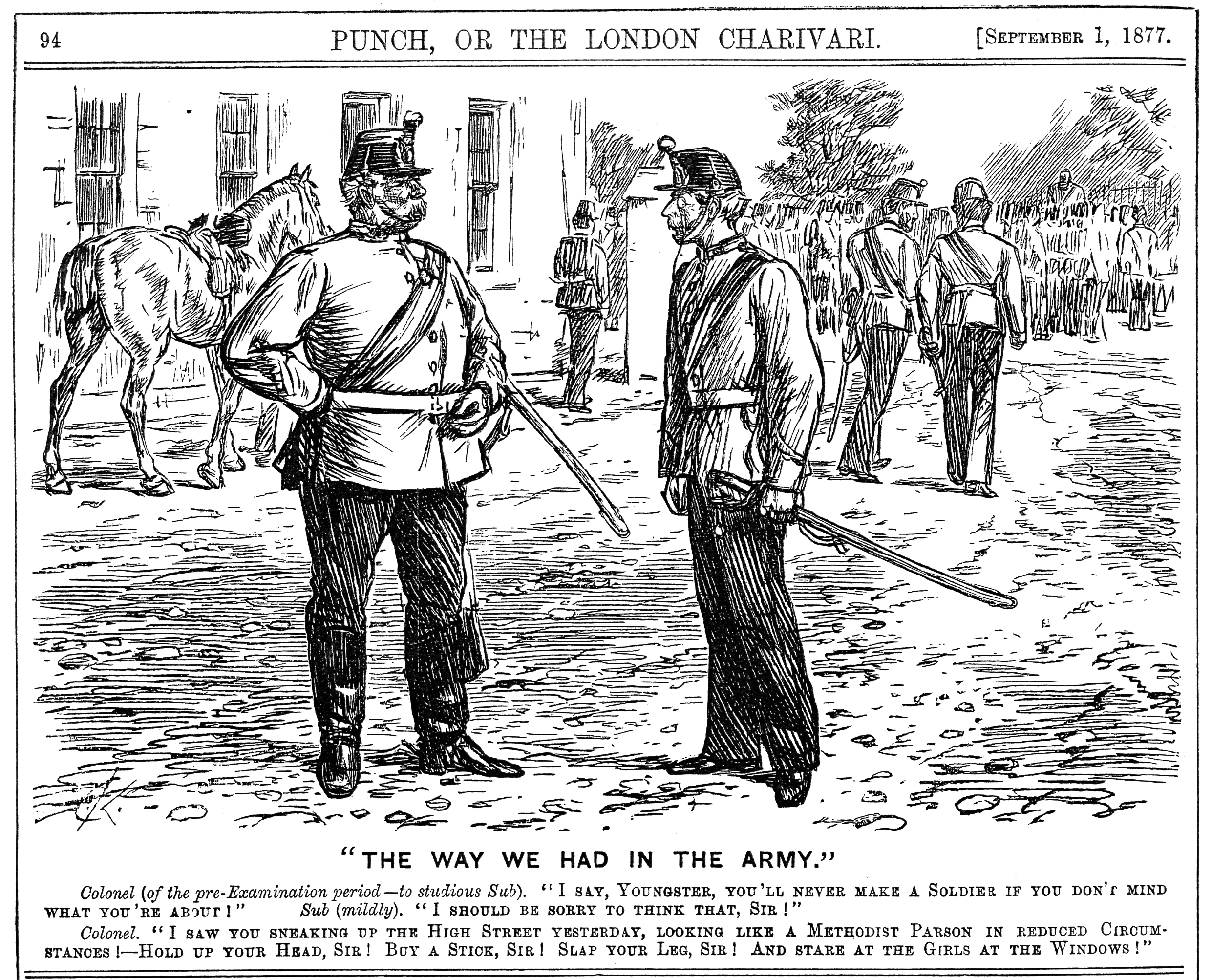 One of the cartoons from Punch featuring the Colonel, a recurring character that would inspire F. C. Burnand's aesthetic parody "The Colonel", which opened shortly before Gilbert and Sullivan's Patience.